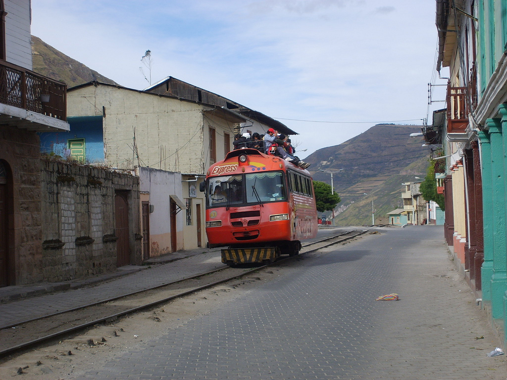 Tourist train of Empresa de Ferrocarriles Ecuatorianos in Alausí, moving towards Sibambe on the "Nariz del Diablo" railway. Tourists sit both inside and on the roof.